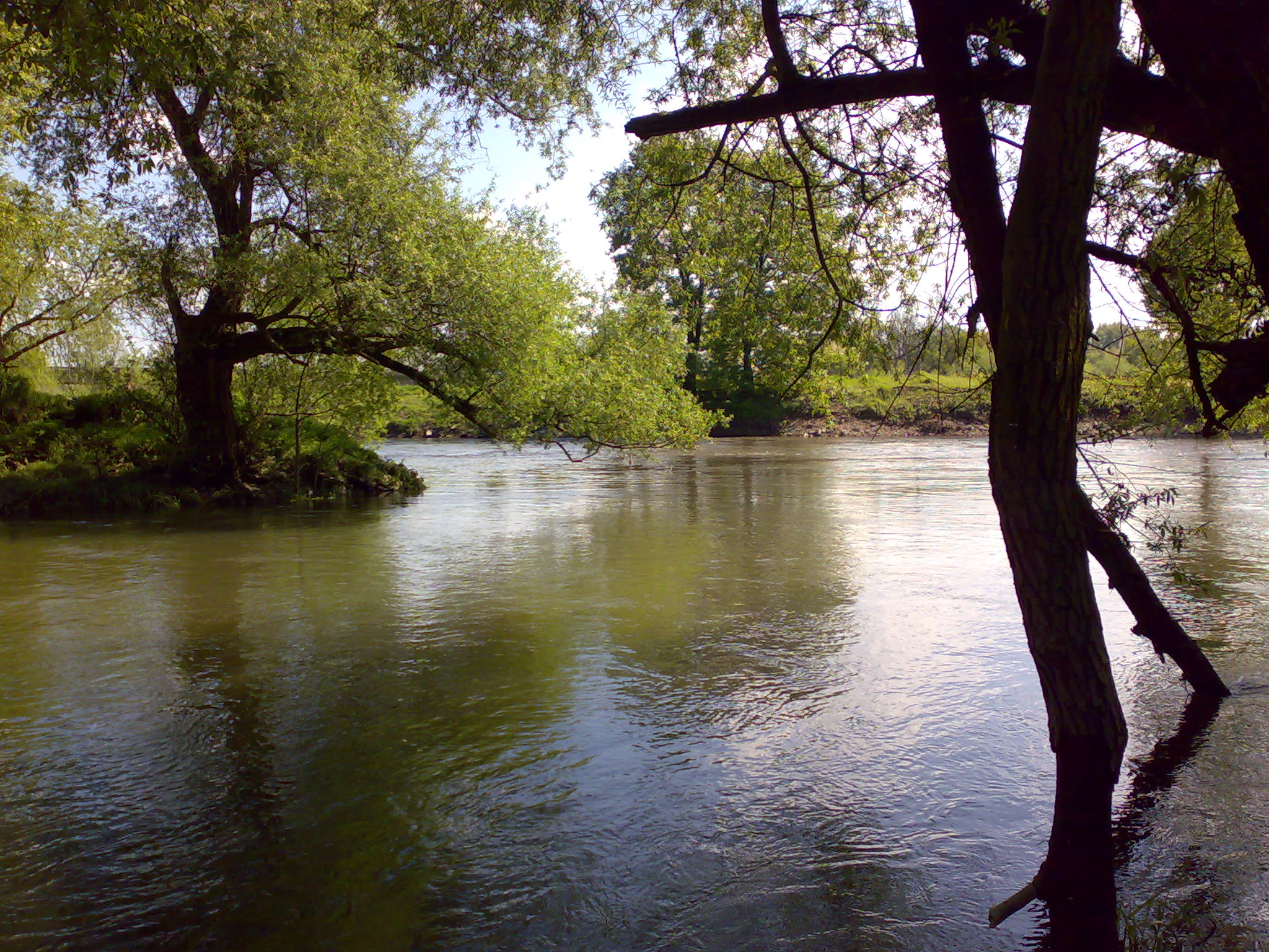 Mouth of the river Agger in Troisdorf, Germany. In the foreground the river Agger, in the background the river Sieg.